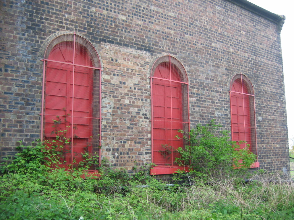 Prestongrange Industrial Heritage Museum, East Lothian, Scotland